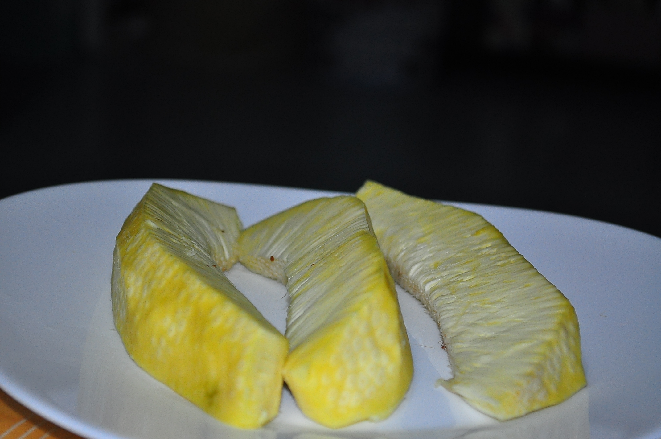 We had this for breakfast. This is what is called the Breadfruit.